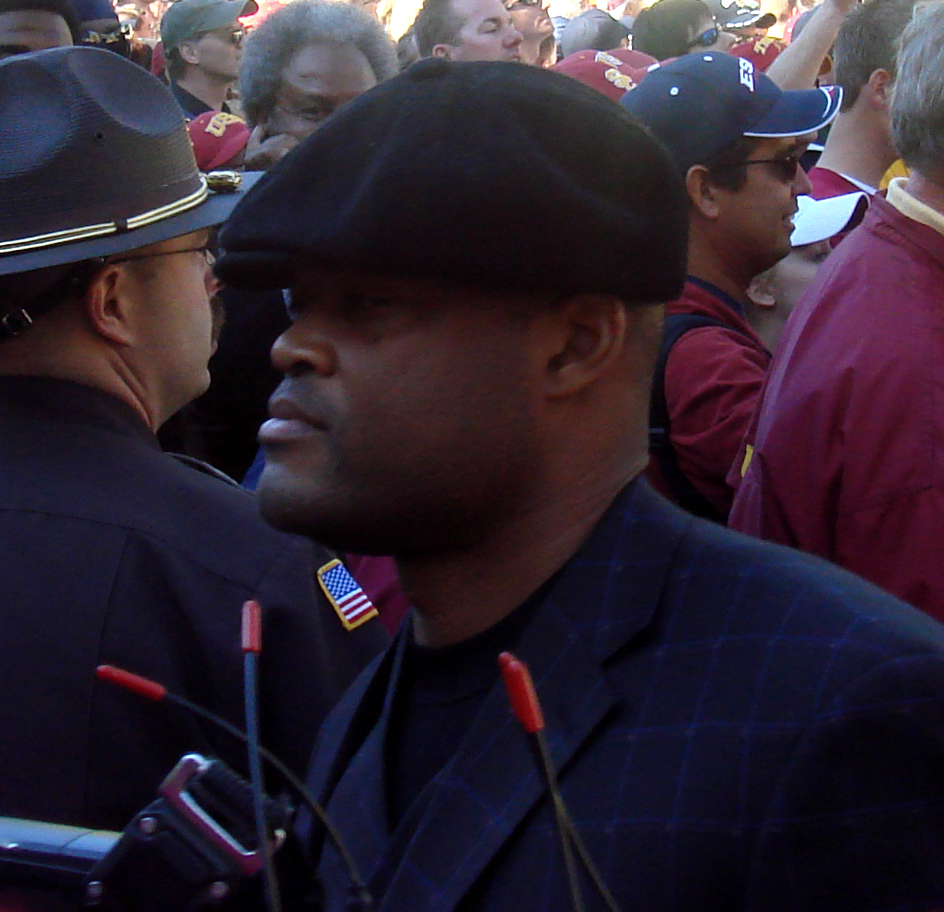 Ken Norton, Jr., walking with the rest of the USC Trojans football team towards Notre Dame Stadium.